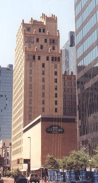 The Courtyard by Marriott Fort Worth Downtown-Blackstone after the 2000 tornado. The building sustained very little damage compared to surrounding buildings.